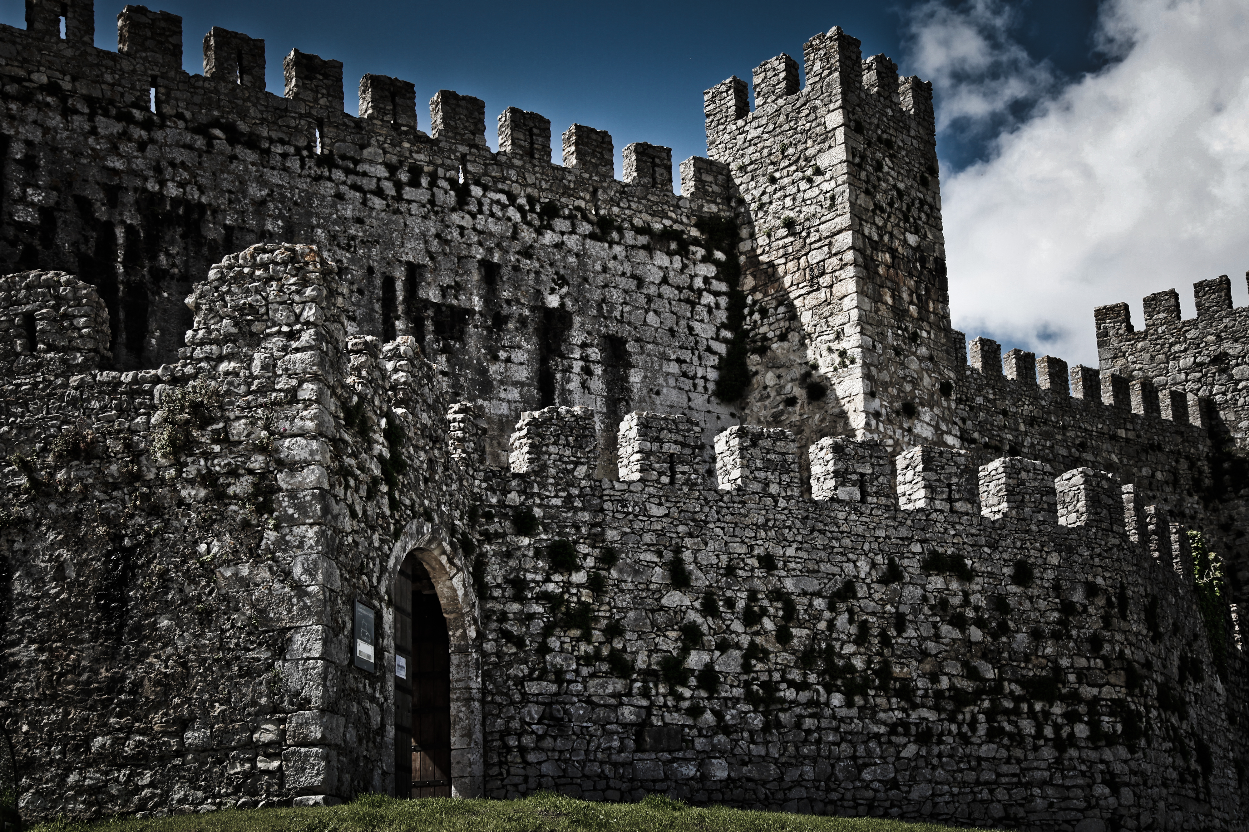 The fortress of Montemor-o-Velho